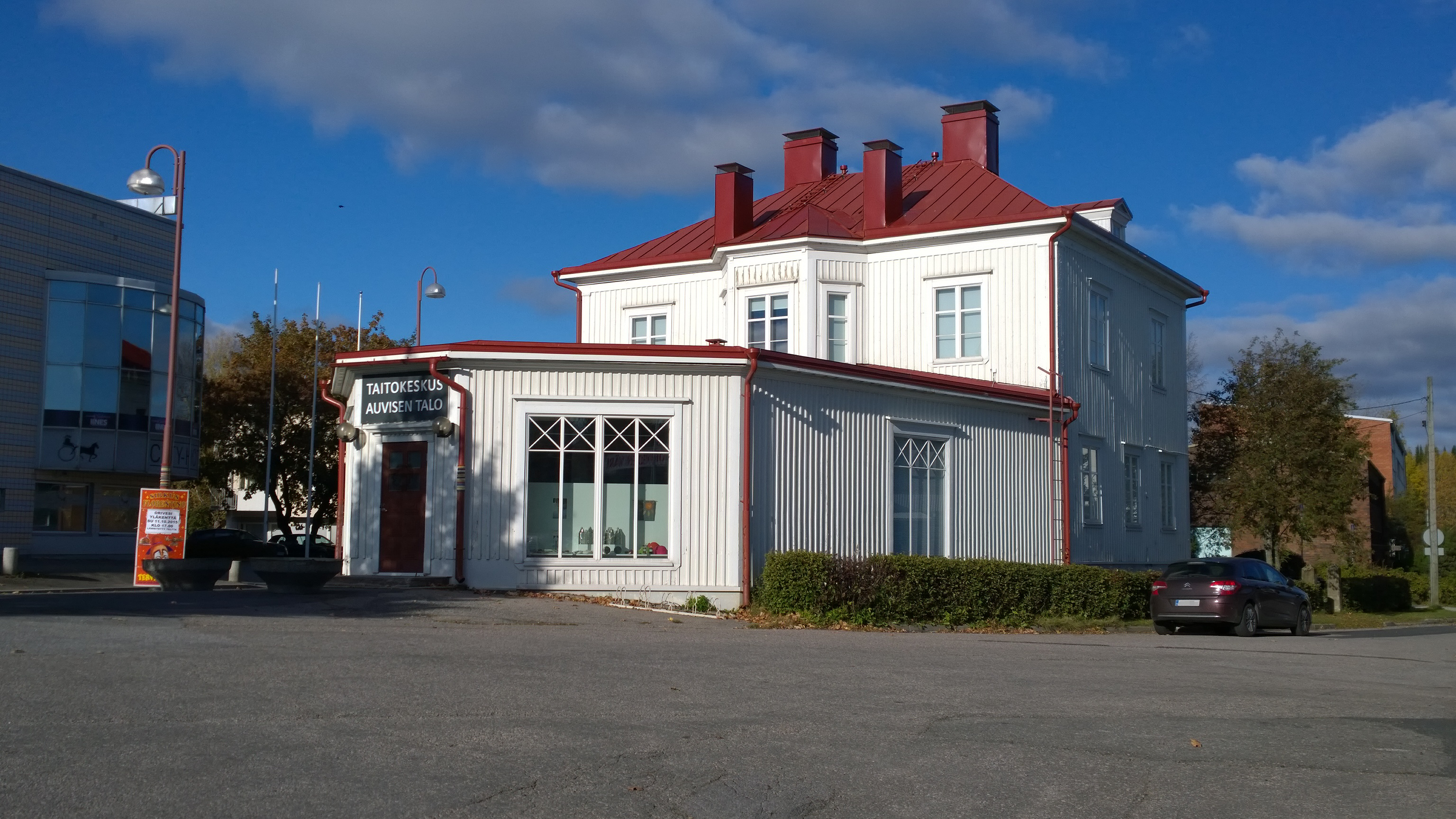 Auvinen's House in Orivesi